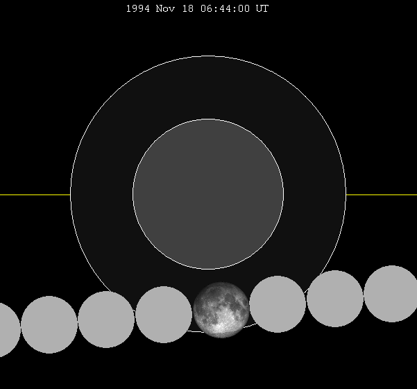 November 1994 lunar eclipse chart of moon's penumbral lunar eclipse path through the earth's shadow. thumb